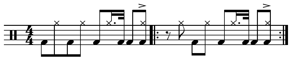 the big four